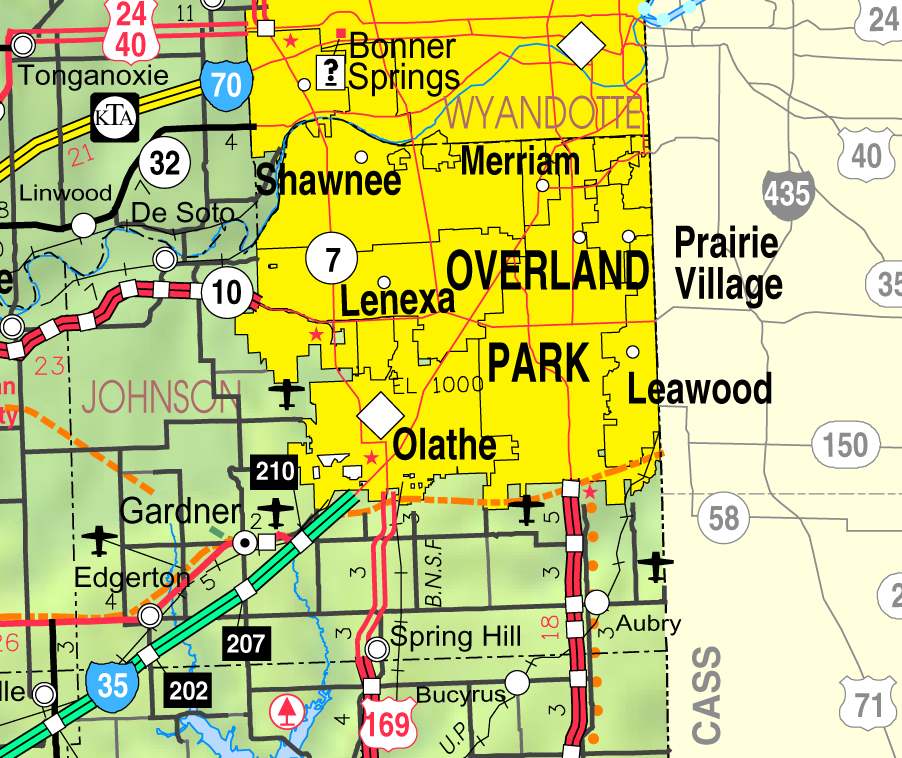 This map of Johnson County, Kansas, U.S., is copied at a resolution of 300 pixels/inch from the original PDF file.